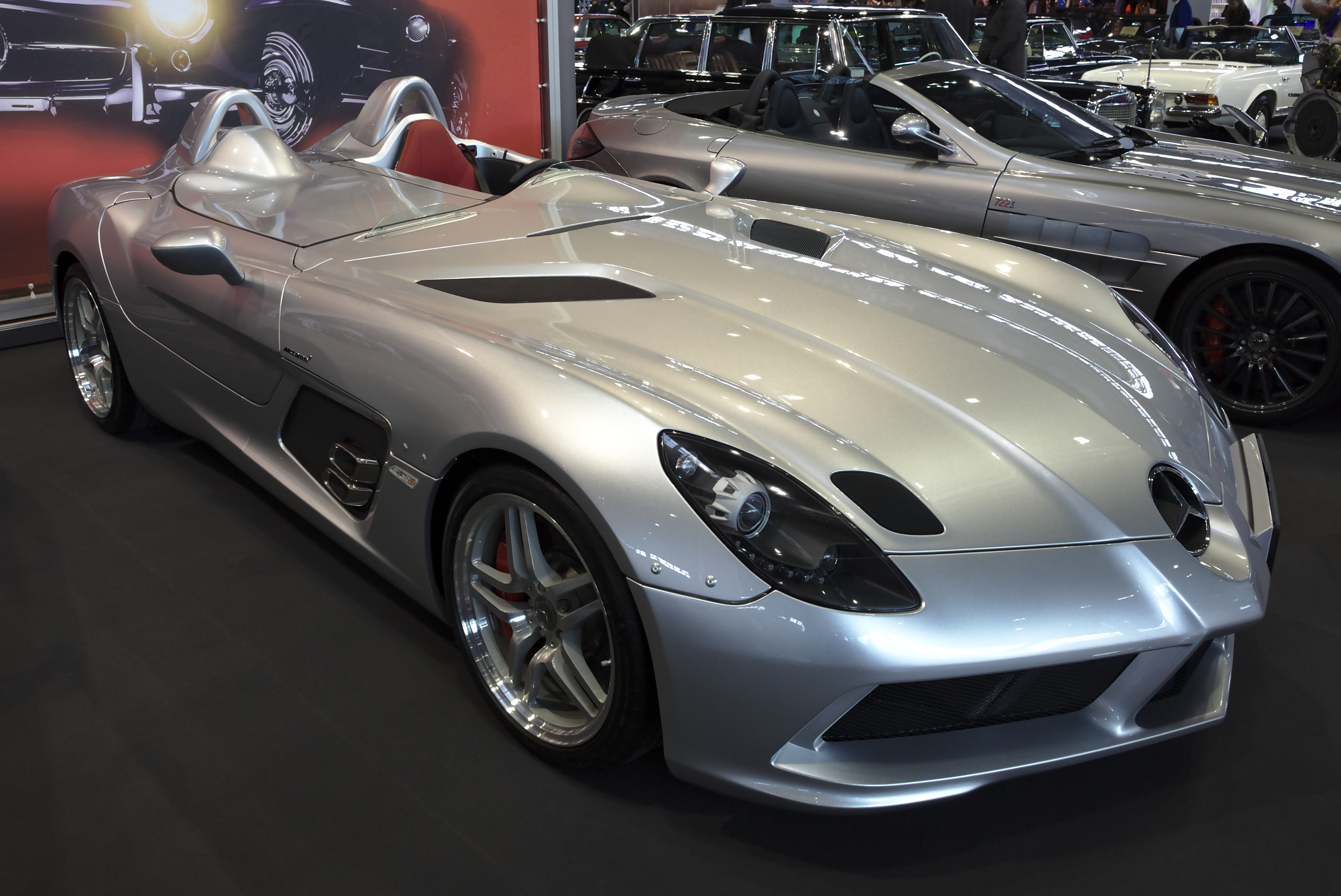 Mercedes-Benz SLR McLaren Stirling Moss at Retro Classics 2019